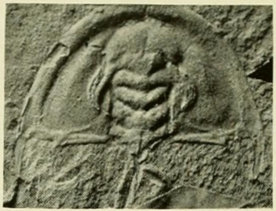 Mummaspis occidens (Walcott, 1913) – Holotype. Wanneria occidens; Walcott 1913:314, pl. 53, fig. 2. Esmeraldina occidens (Walcott); Resser and Howell 1938:229. Mummaspis occidens (Walcott); Fritz 1992:17, pl. 9, figs. 2–5, pl. 10, figs. 1–5, text fig. 6a; Palmer and Repina 1993:23, fig. 3.5; Lieberman 1998:72, fig. 4.1; Lieberman 1999:101, pl. 17, fig. 2. Catalog record: USNM PAL 60080 Original historic description: PAGEWanneria occidens Walcott314Fig.2. (Natural size.) Type specimen of the cephalon of the species. (Locality 61k.) U. S. National Museum, Catalogue No. 60080. The specimens represented here by figs. 1-5 are from locality 61k. Lower Cambrian: Mahto formation; dark, hard siliceous shale, northeast base of Mumm Peak above Mural Glacier on the west side of Hitka Pass, 6 miles (9.6 km.) in a direct line north of summit of Robson Peak and northwest of Yellowhead Pass, in western Alberta, Canada.